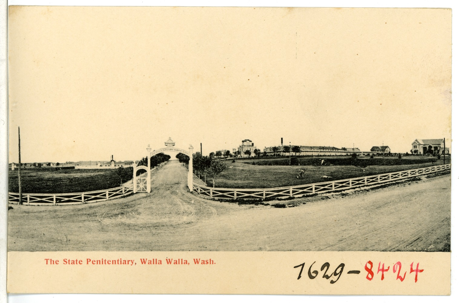 This postcard is from publisher Brück & Sohn in Meißen ( This postcard has a unique number 08424 and is available in a higher resolution at the publisher. This images was uploaded in a cooperation project between Wikipedians and the publisher.